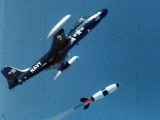 BOAR (Bombardment Aerial Rocket) nuclear weapon test launch from McDonnell F2H-3 Banshee (BuNo 126484) at NOTS China Lake.